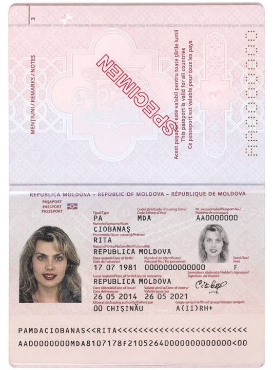 Contemporary Data Page Moldovan Passport